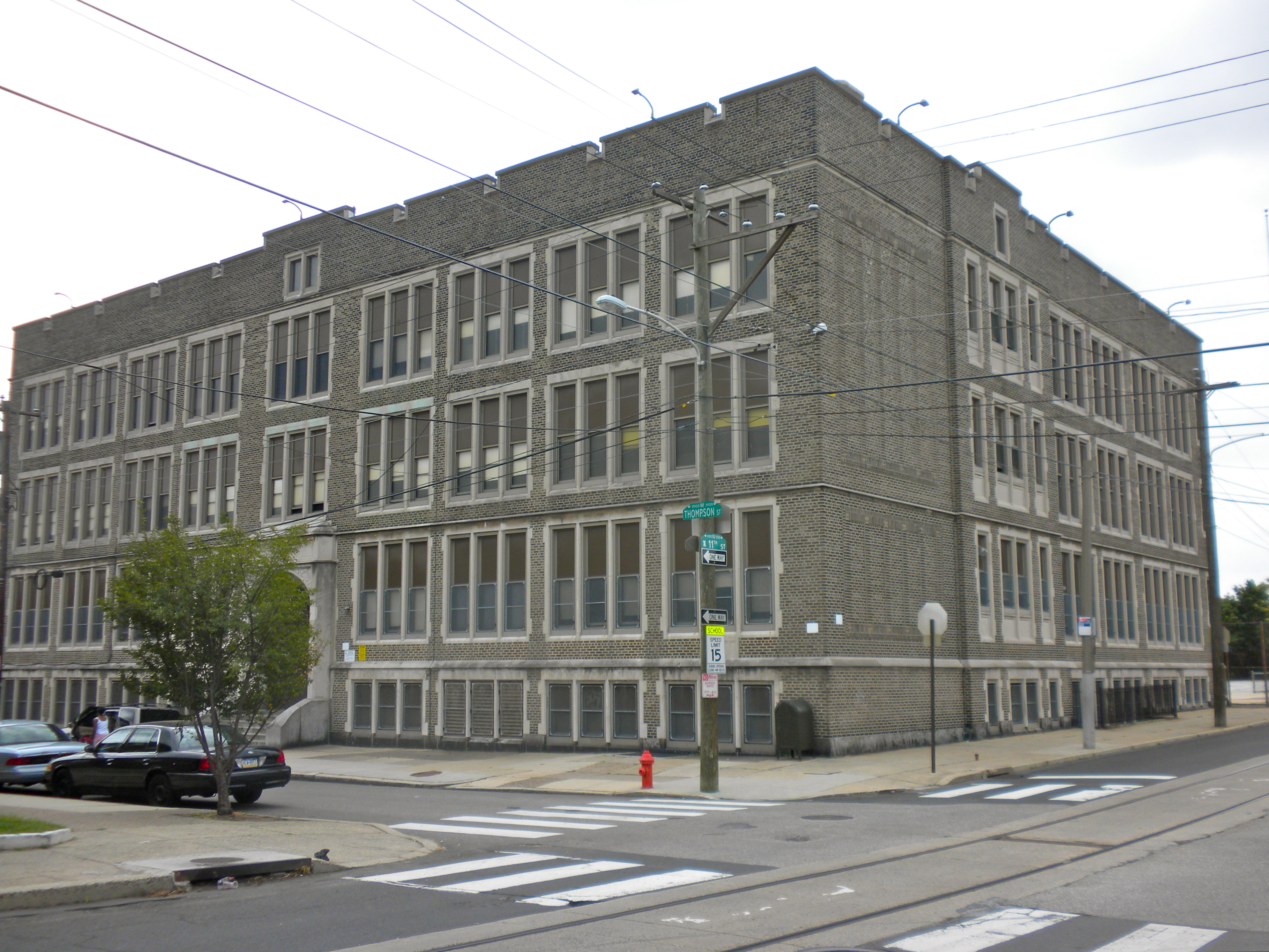 William H. Harrison School on the NRHP since November 18, 1988. At 1012–1020 West Thompson St., in the Yorktown neighborhood of Philadelphia (North Philly).